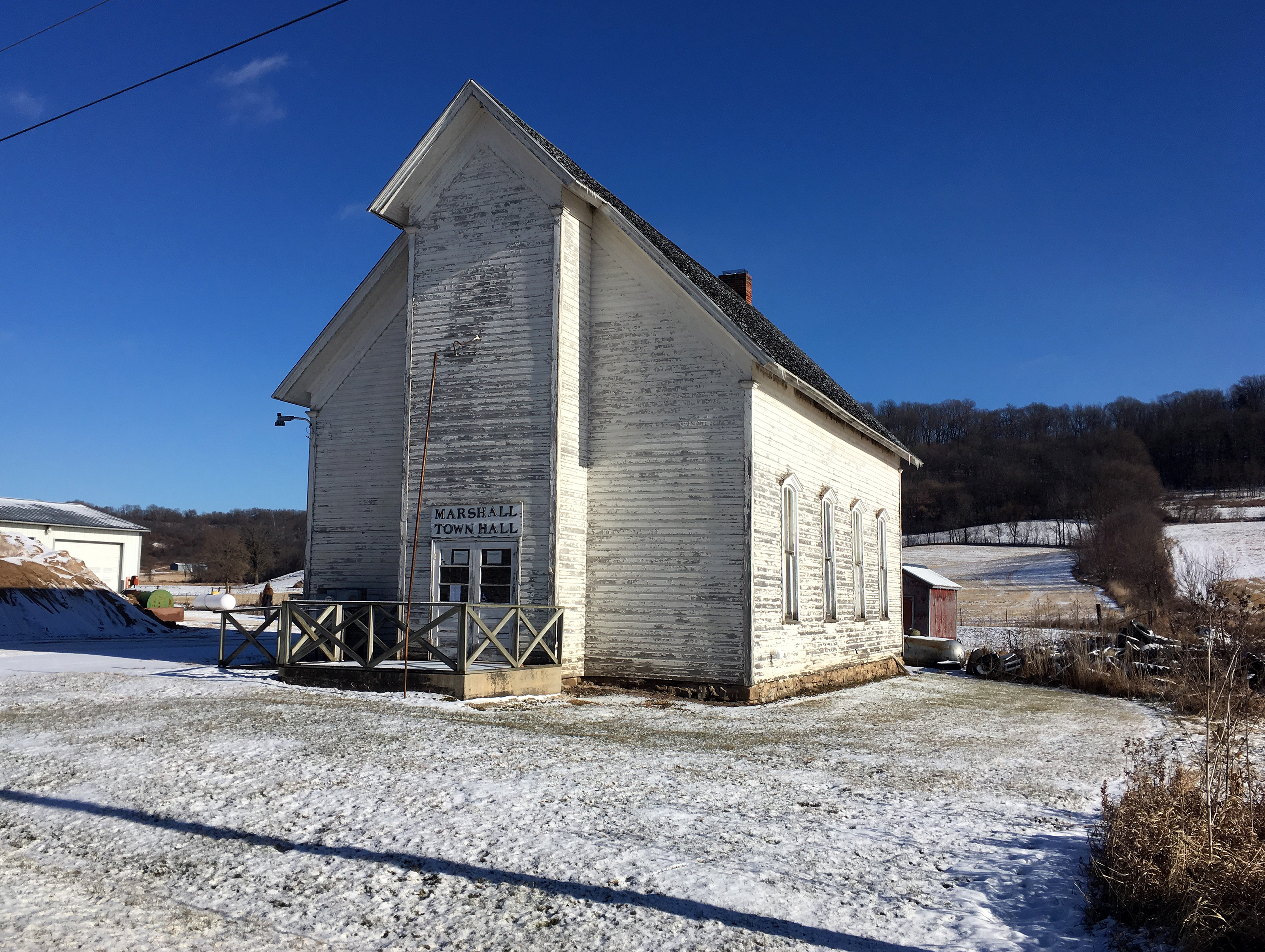 Town Hall of Marshall, WI, December 2017